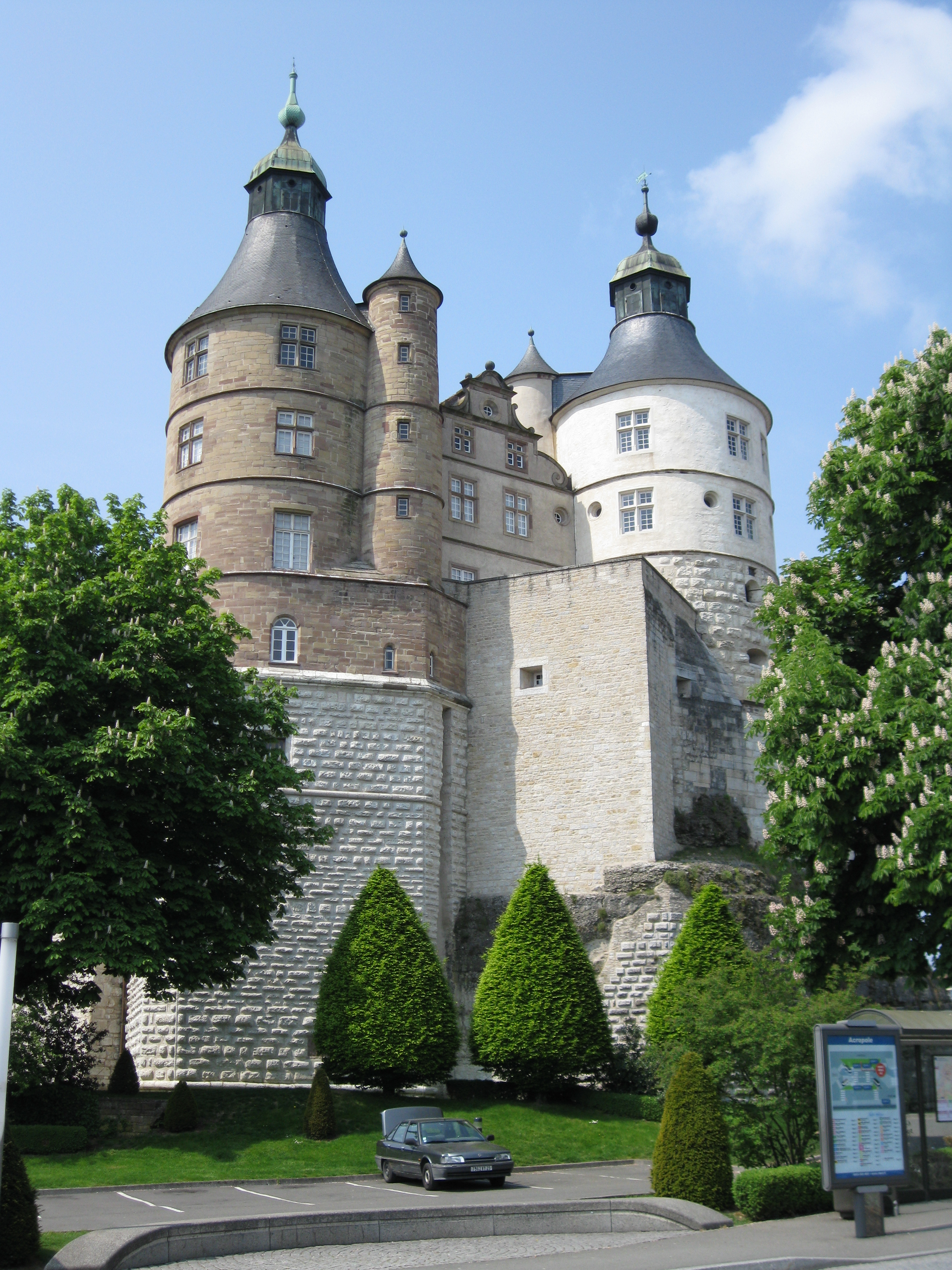 Montbéliard, France